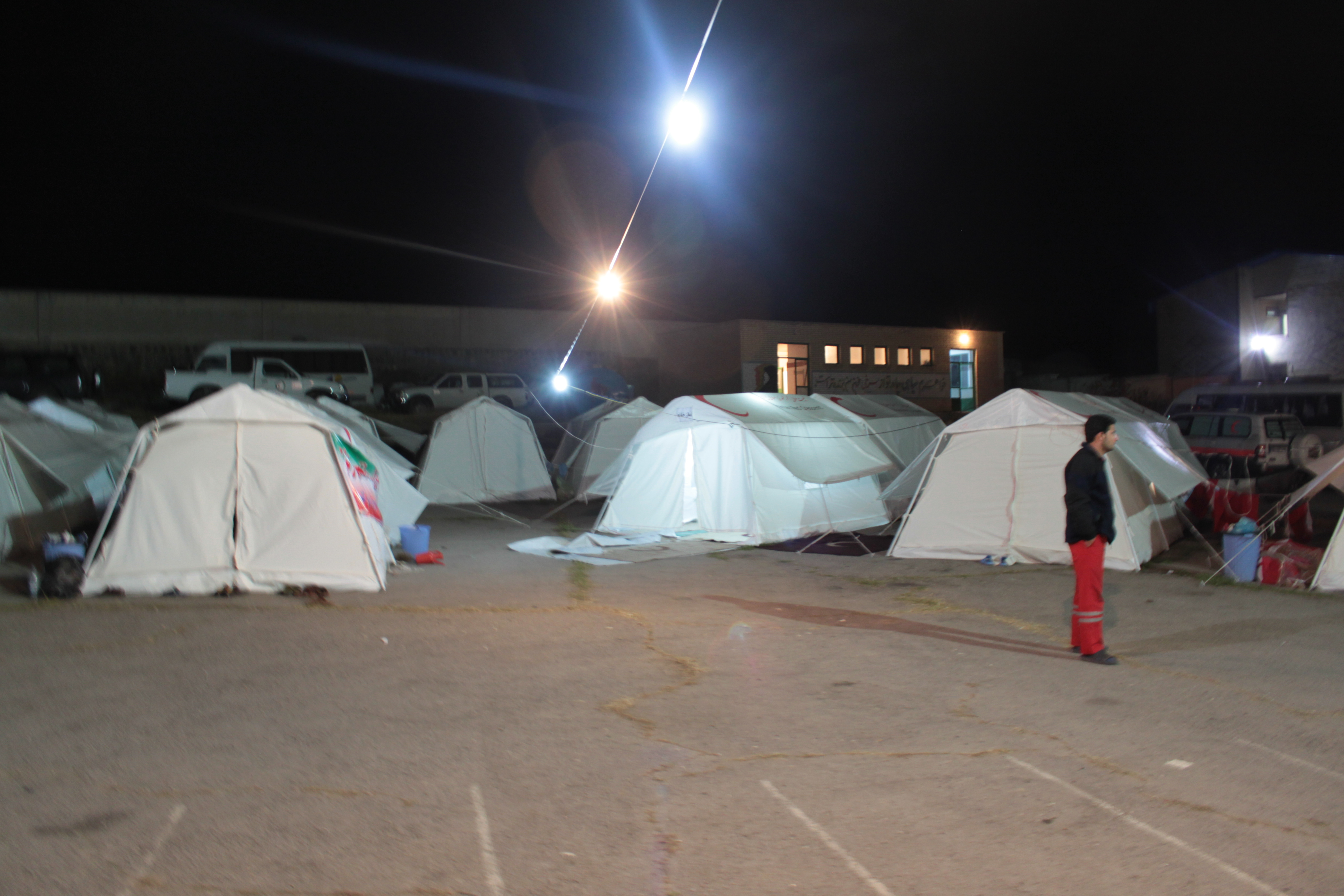 The 2012 East Azerbaijan earthquakes occurred near the cities of Ahar and Varzaqan in Iran's East Azerbaijan Province, on August 11, 2012, at 16:53 Iran Standard Time. The two quakes measured 6.4 and 6.3 on the moment magnitude scale, and were separated by eleven minutes. The epicenter of the earthquakes was 60 kilometers (37 miles) from Tabriz.